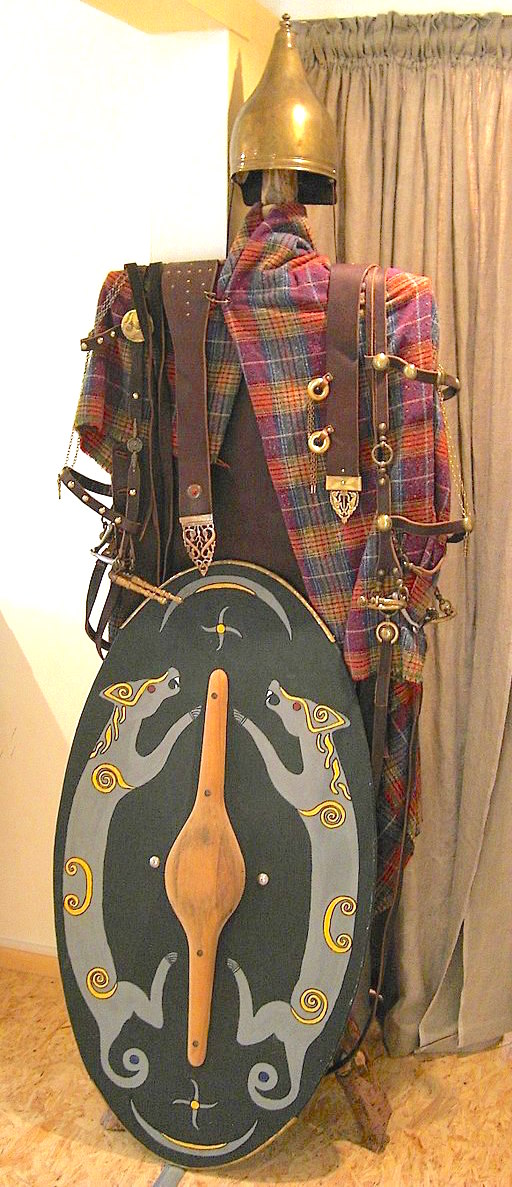 Celtic warrior`s garments, replicas. In the museum Kelten-Keller, Rodheim-Bieber, Germany. I asked the responsible person at the entrance for the permission to take the photo, which he granted me.